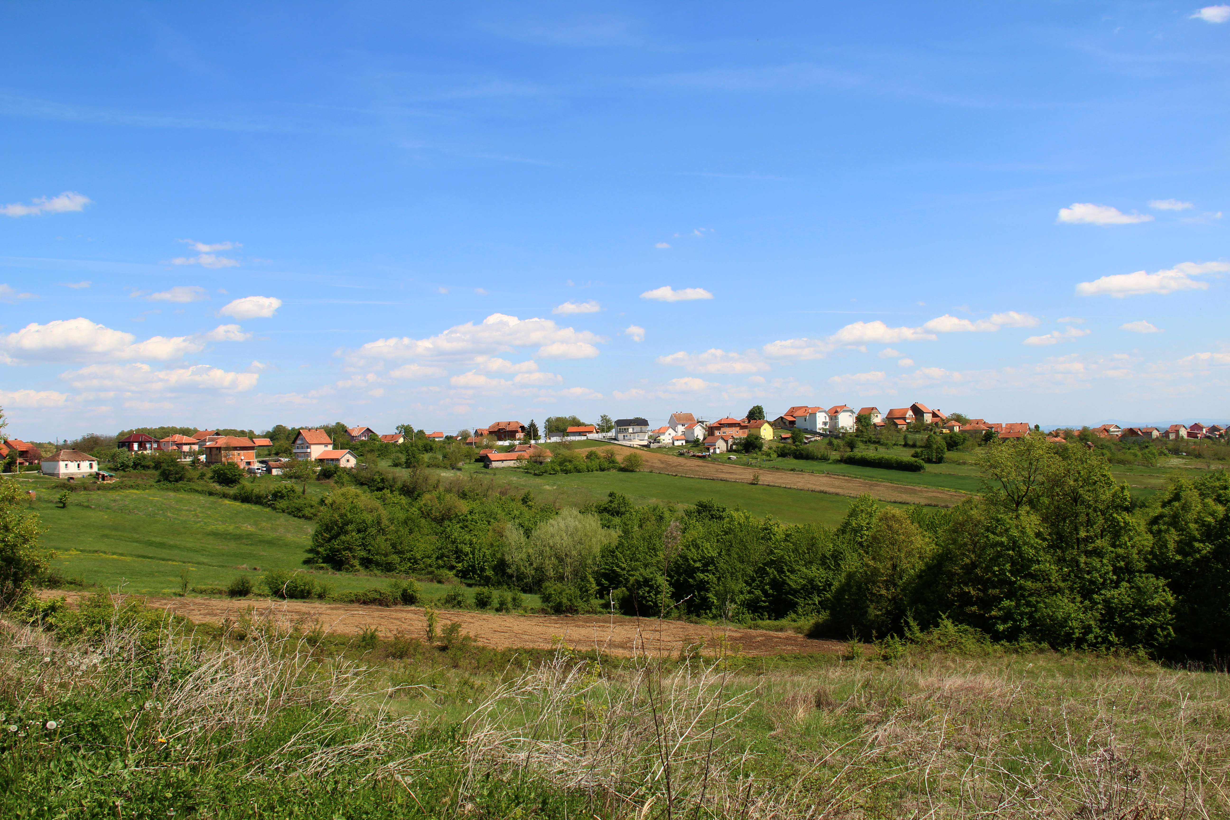 Gornja Grabovica village - Municipality of Valjevo - Western Serbia - Panorama 1